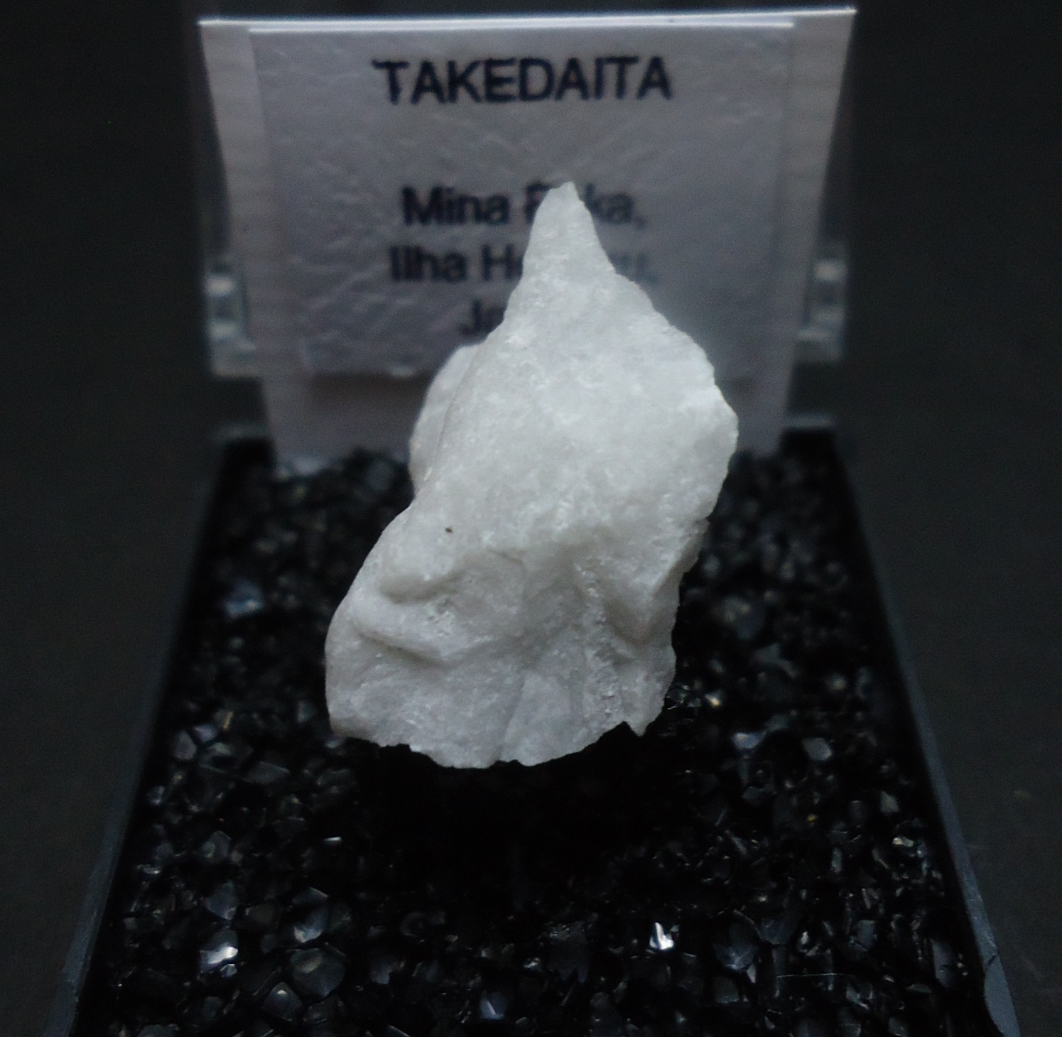 Locality: Fuka mine, Fuka, Bicchu-cho (Bitchu-cho), Takahashi City, Okayama Prefecture, Chugoku Region, Honshu Island, Japan Dimensions: 16 mm x 9 mm x 8 mm White massive Takedaite from type locality; photo and collection Fernando Brederodes.